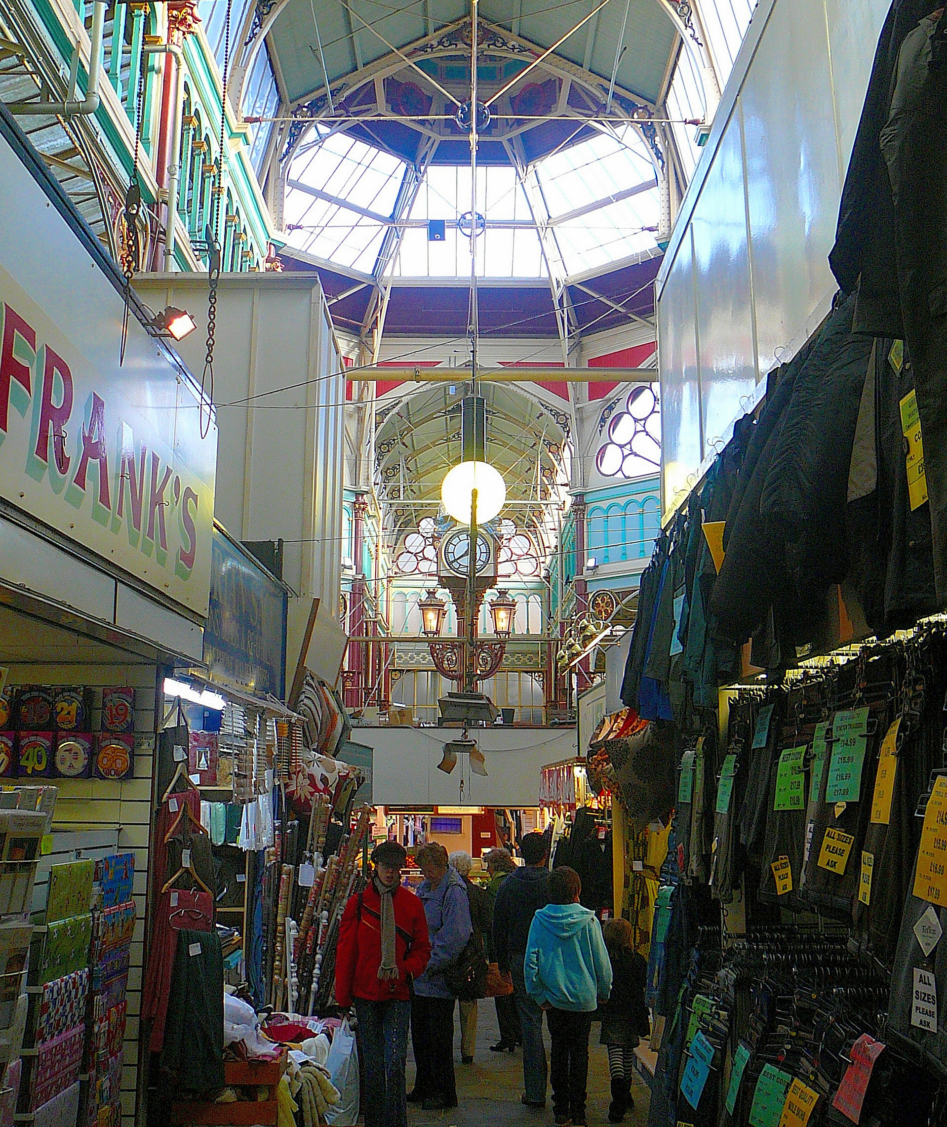 Borough Market